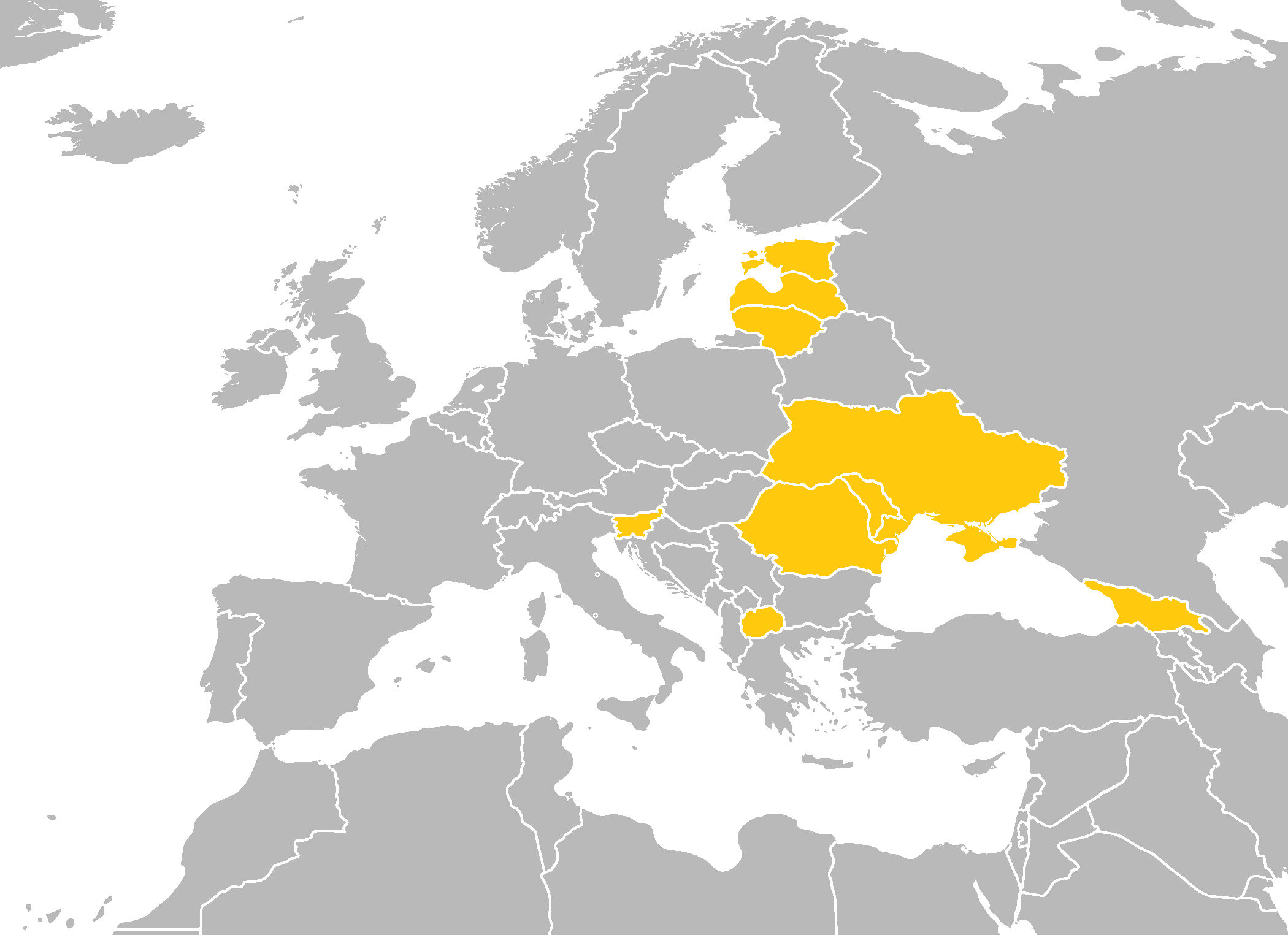 Made a new map of the organization. Map based on BlankMap-Europe-v4.png